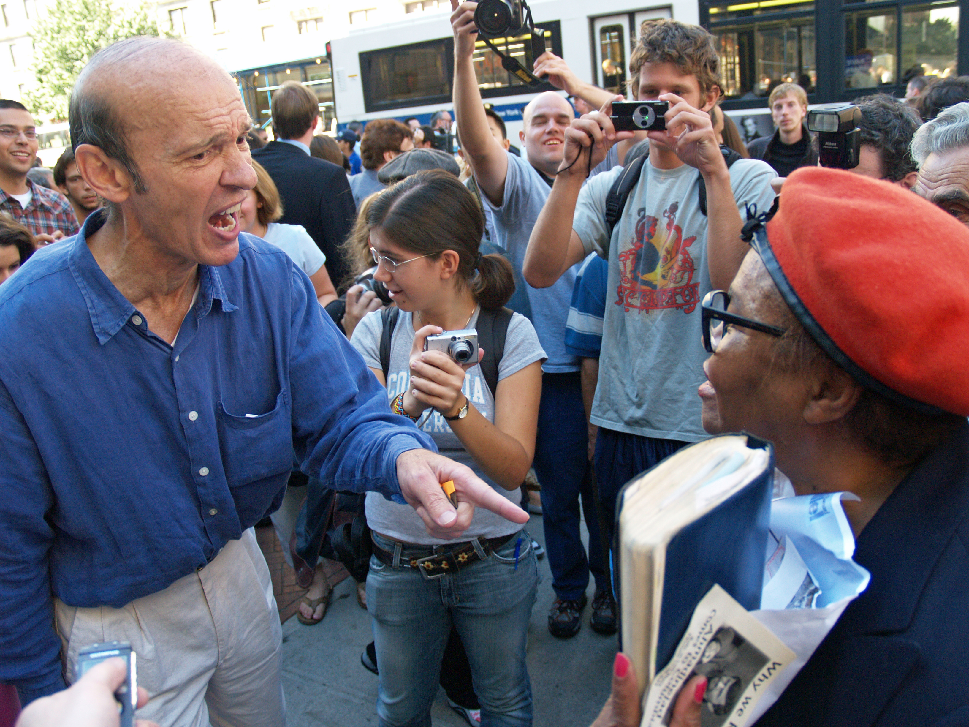 Two people in a heated argument about religion when Mahmoud Ahmadinejad spoke at Columbia University. Click the audio button found above and to the left to listen to them.